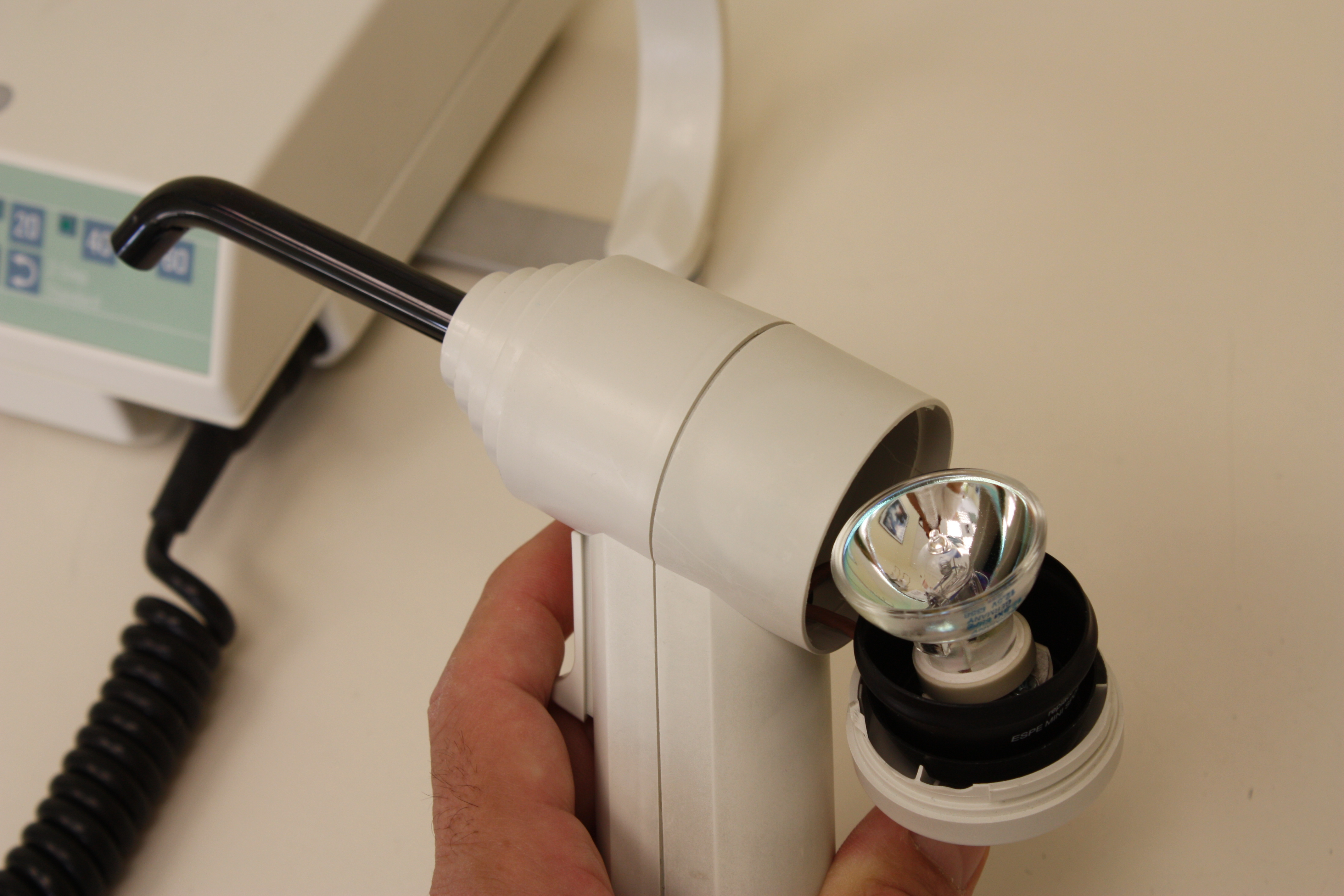 Polymerisationslampe für Komposite (Zahnmedizin) 2009